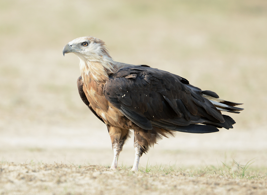 A Pallas's Fish Eagle at Corbett National Park, Uttarakhand, India.